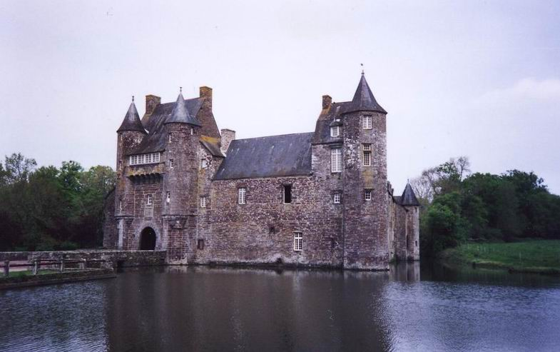 Source: My own personal picture while on visit to Brittany